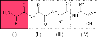 Figure showing N-terminal of a peptide(protein)